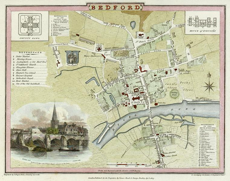 Bedford, England in 1806. Engraved by J Roper after a drawing by G Cole.